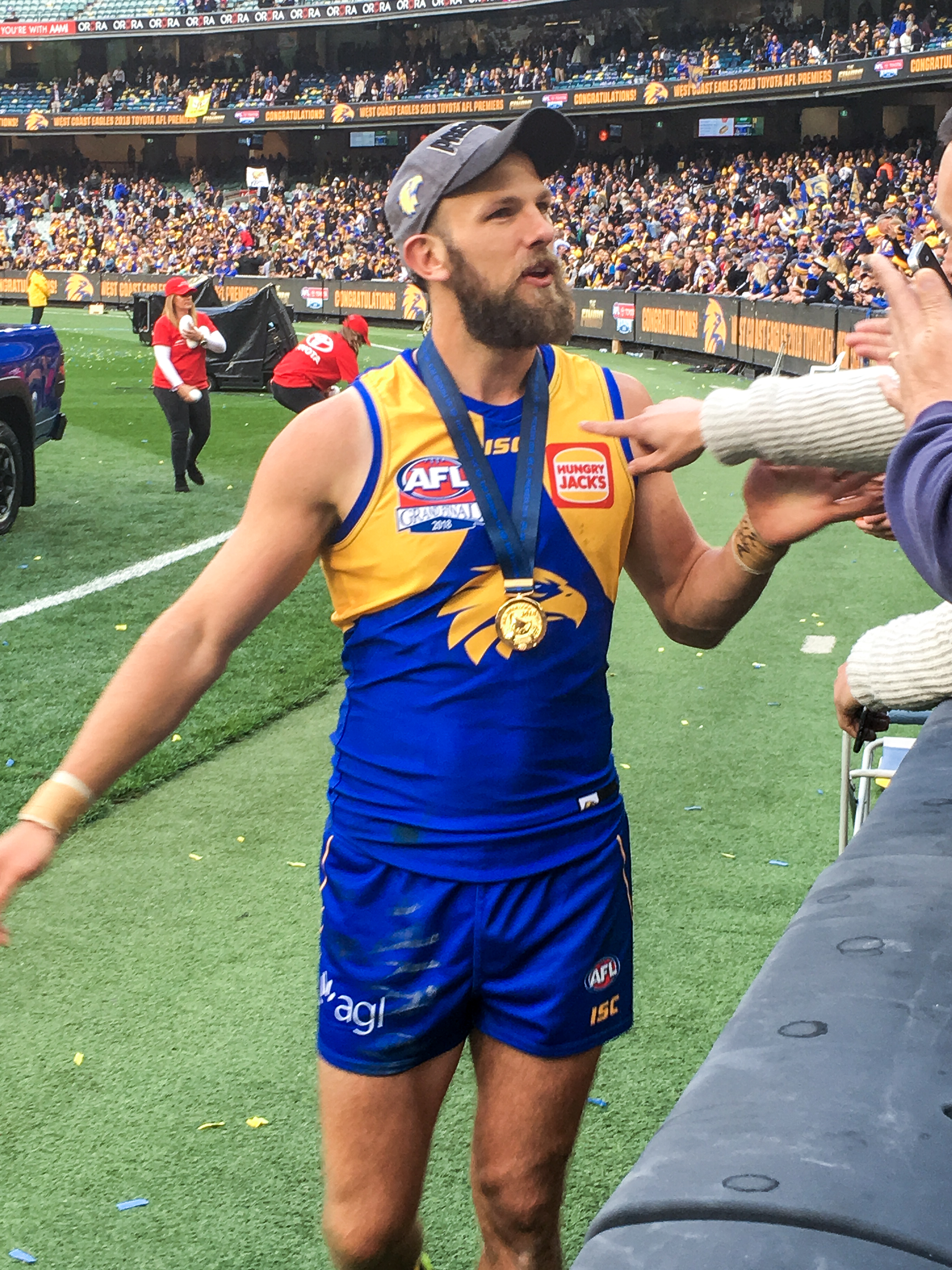 Will Schofield celebrating with fans after winning the AFL Grand Final on 29 September 2018 in Melbourne, Victoria.